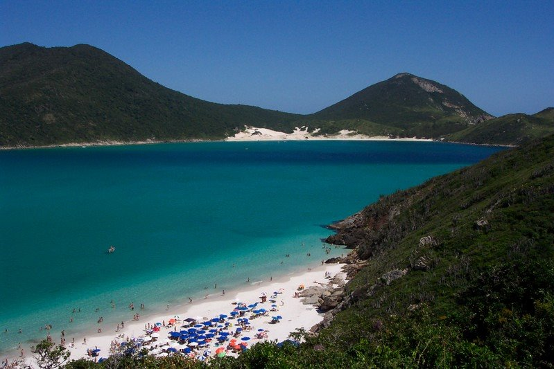 View of the sea at Arraial do Cabo Municipallity {